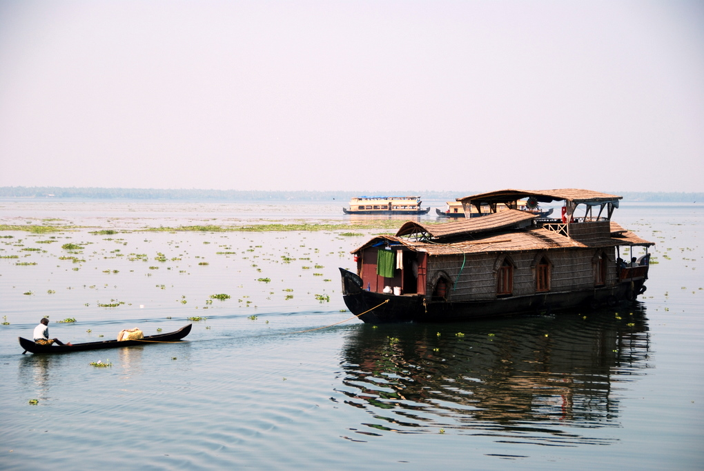 a smal boat riding on the motorised power of a kettuvellam